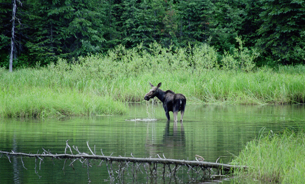 Female moose drinking from small roadside lake near Barkerville, BC